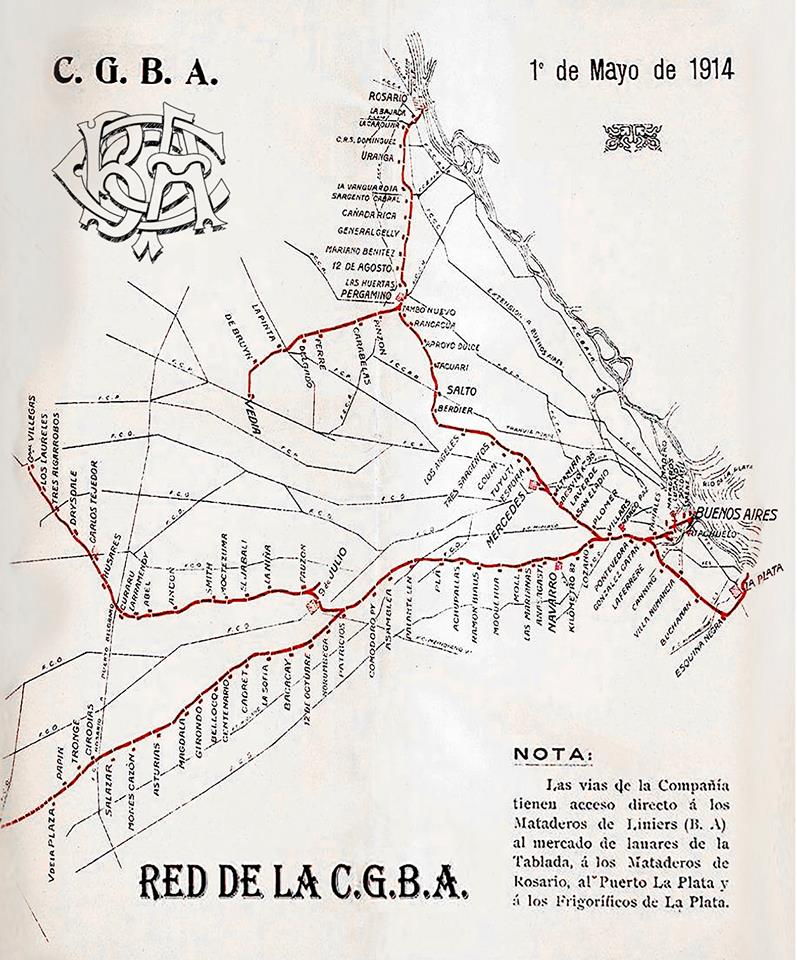 Map of the CGBA network.